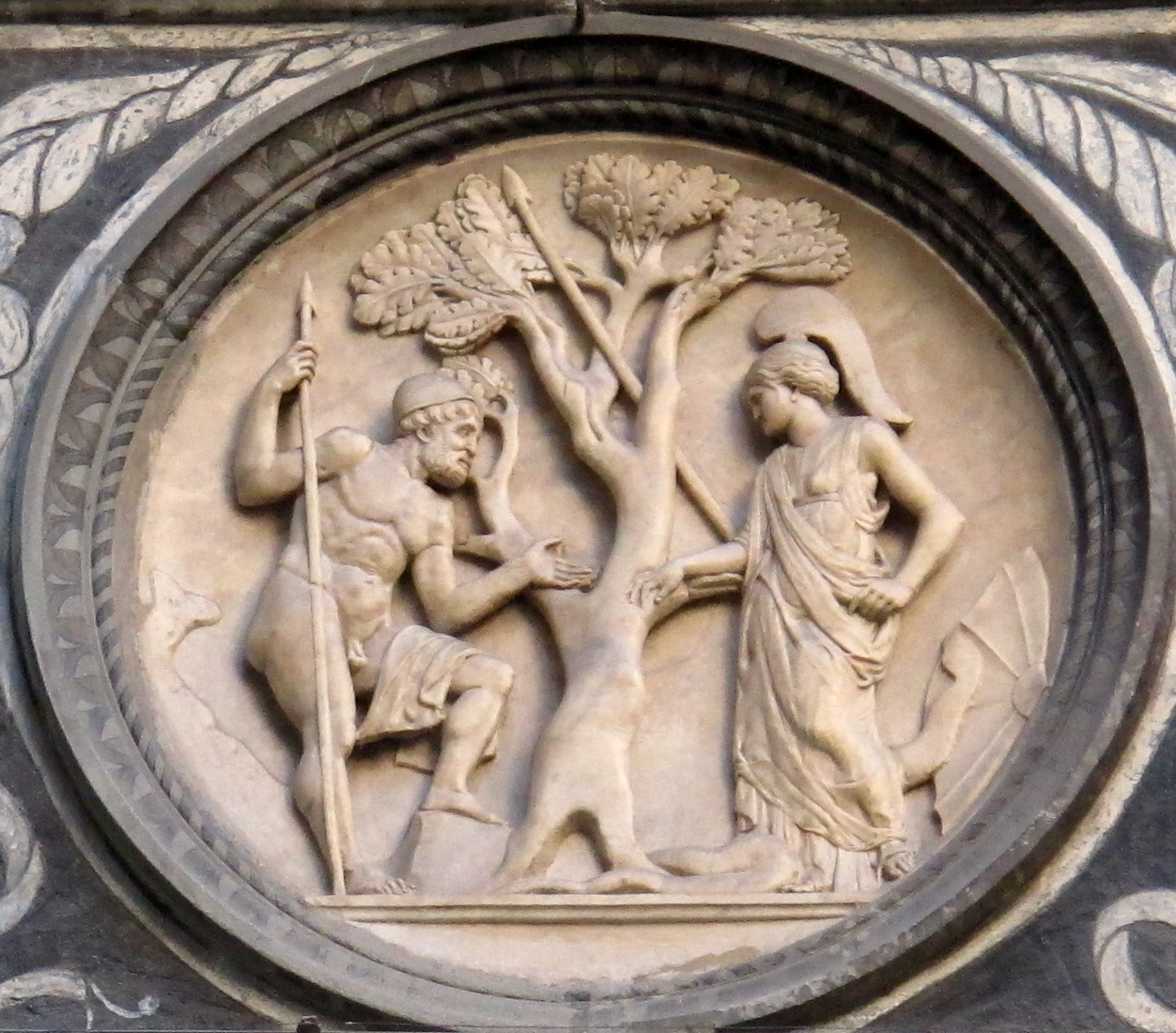 Courtyard of Palazzo Medici-Riccardi - Frieze